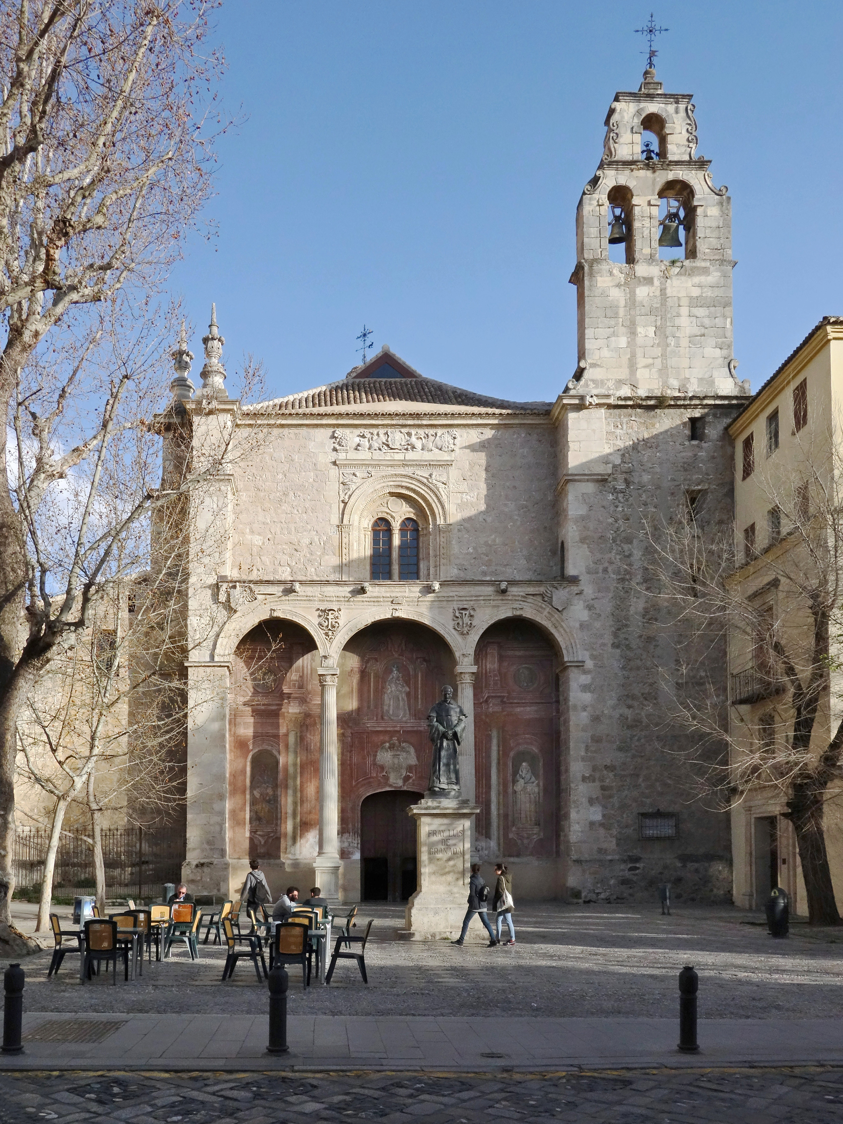 Church of Santo Domingo, Granada